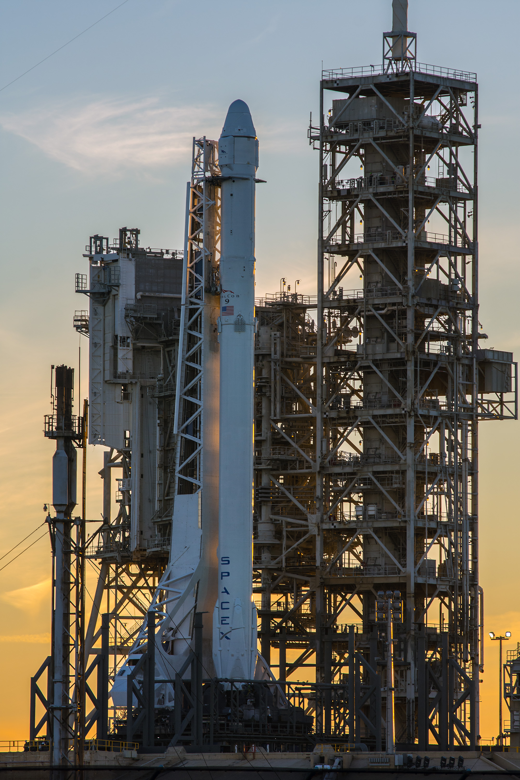 Falcon 9 and Dragon Vertical at Pad 39A